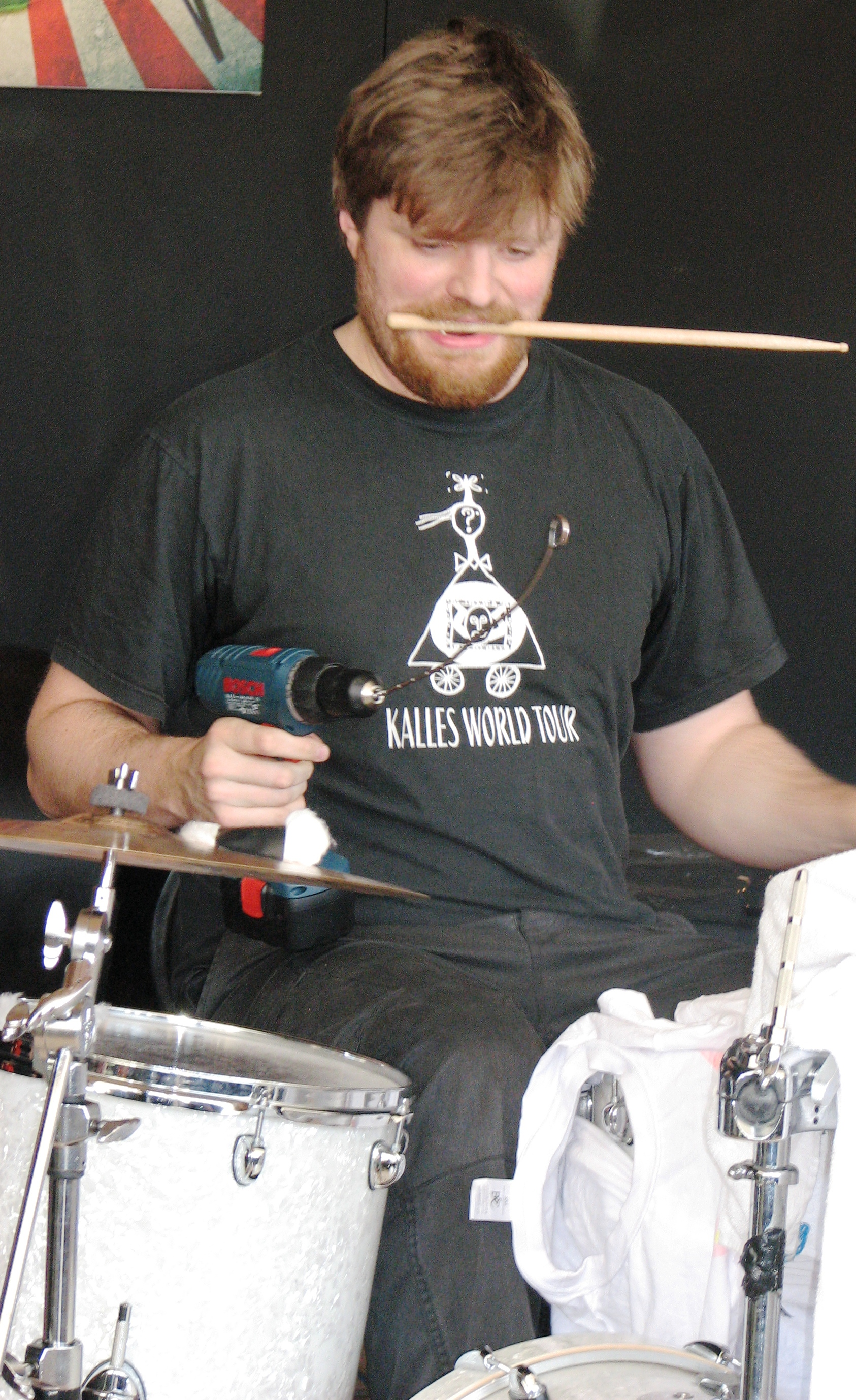 Karsten Mathiesen performing during Jazzkaar.